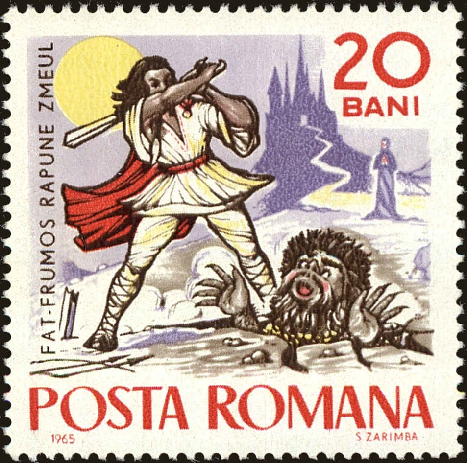 Prince Charming and the Giant